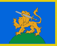 Flag of Rietavas and Rietavas municipality